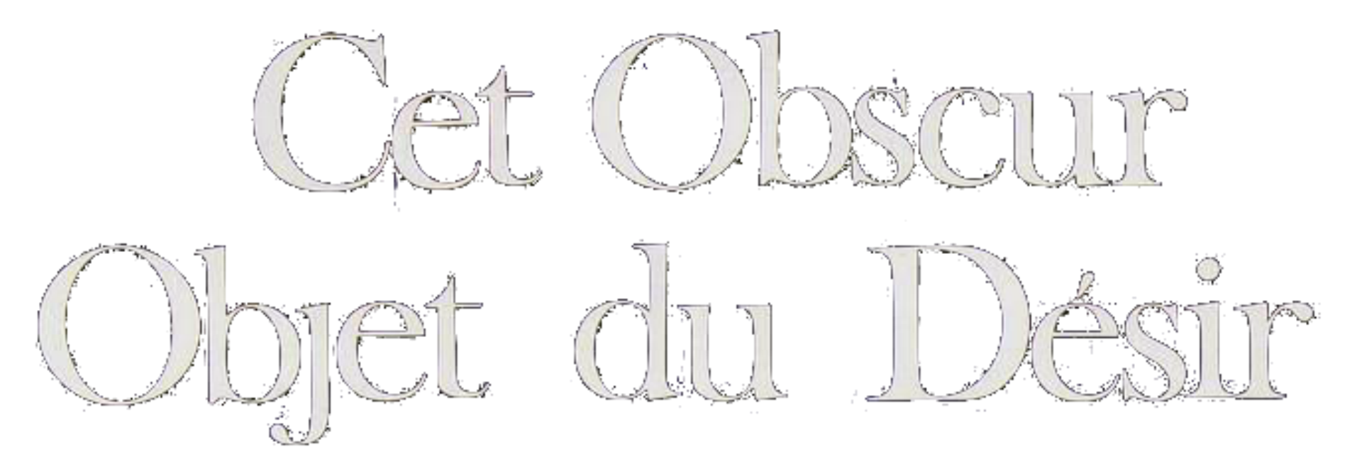 "Cet obscur objet du désir" movie white logo.